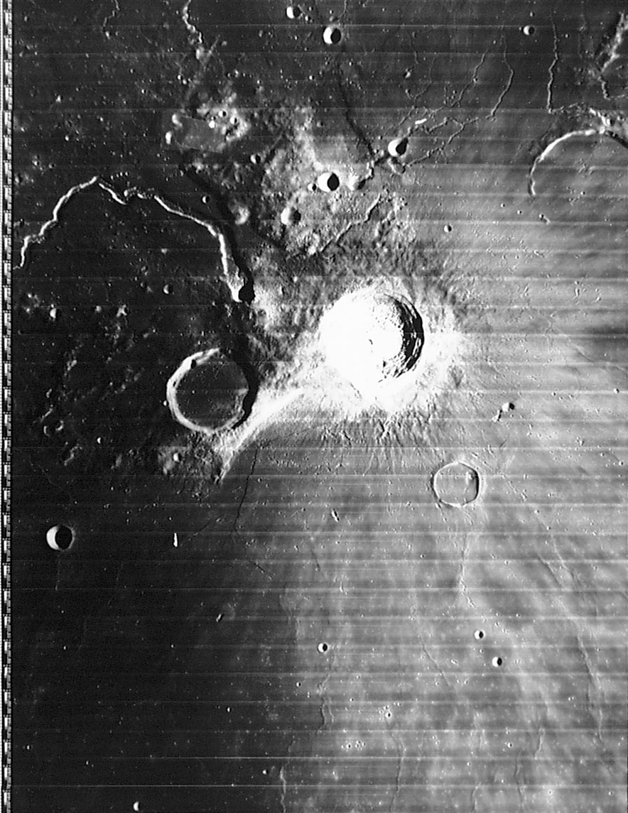 Herodotus and Aristarchus Craters